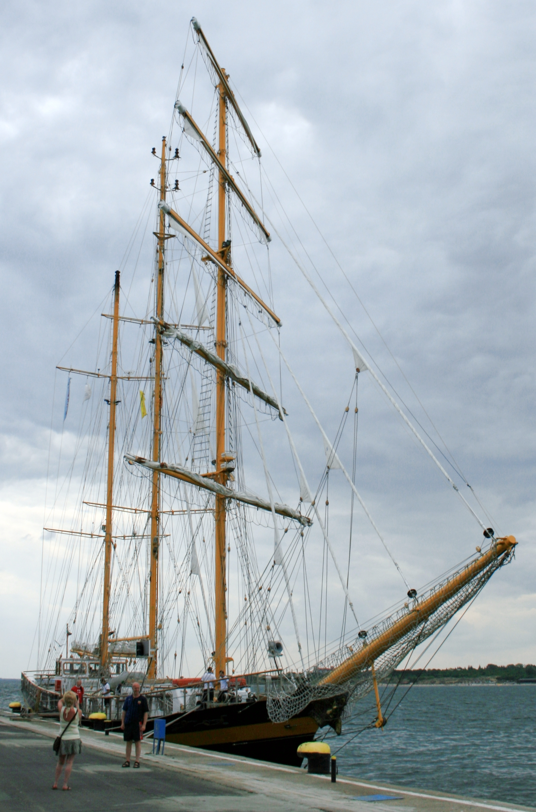 SV "Royal Helena" (build in Bulgaria, 2009; home port:Varna, Bulgaria) on quay at black-sea-port of Nesebar/Bulgaria.